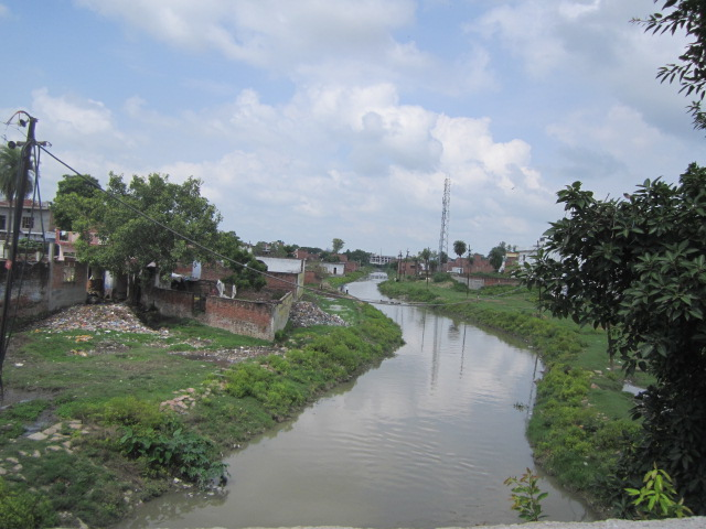 View of Jamuriya Nala(a brook) from Railway Station Road Bridge Barabanki. This brook flows through the Barabanki city and divides the city in two halves. Picture taken by Faiz Haider, using LG KP119 (Dynamite) phone. Photo was taken on: Tuesday, April 07, 2009, 11:10:28 AM